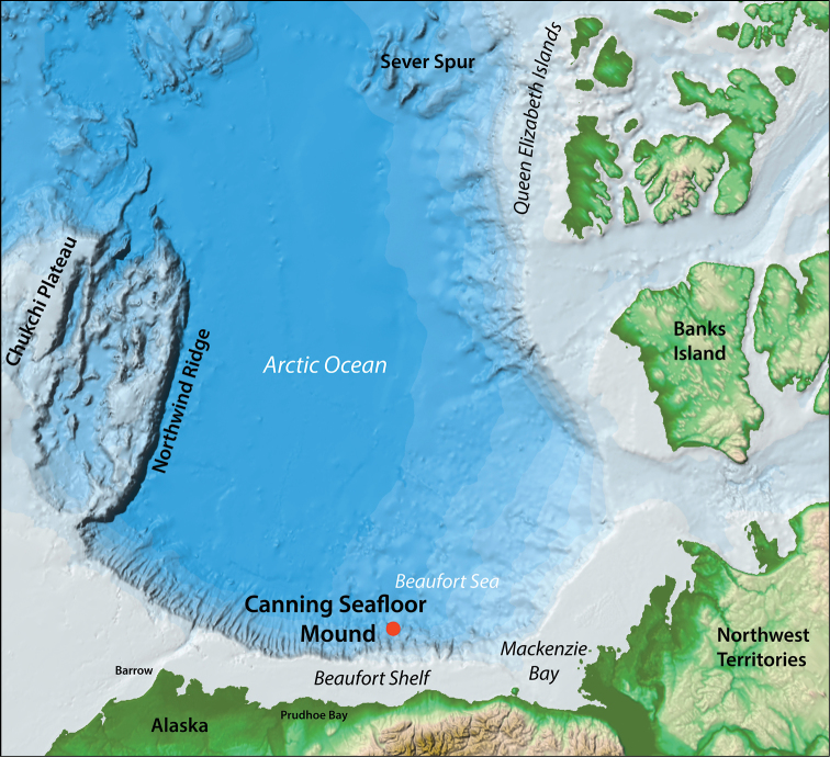 Base map adapted from Jakobsson et al. (2008) showing the location of the Canning Seafloor Mound off the coast of northern Alaska.